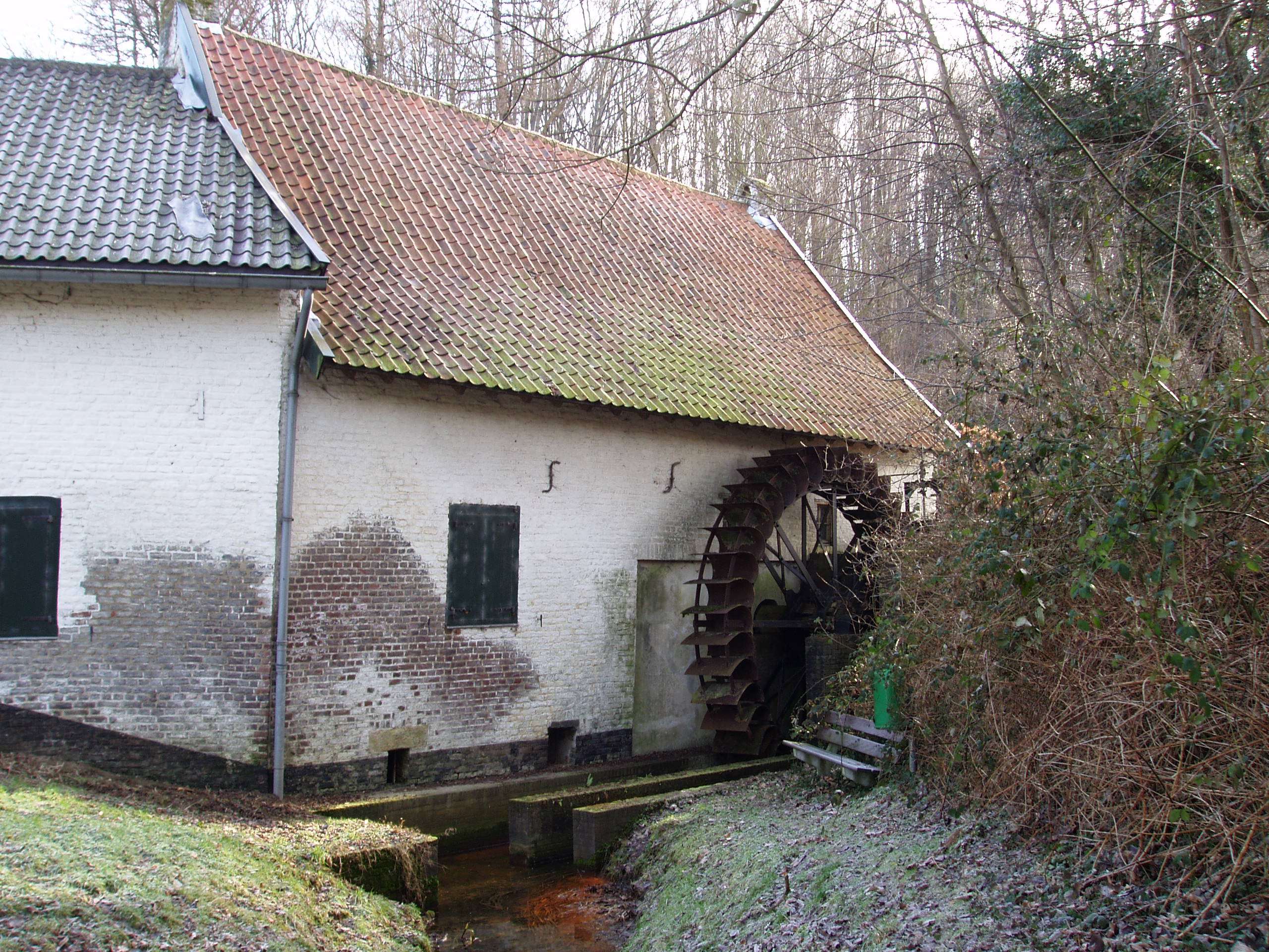 Watermill Streythagermolen (Kasteel Strijthagen), Landgraaf, Limburg, Netherlands